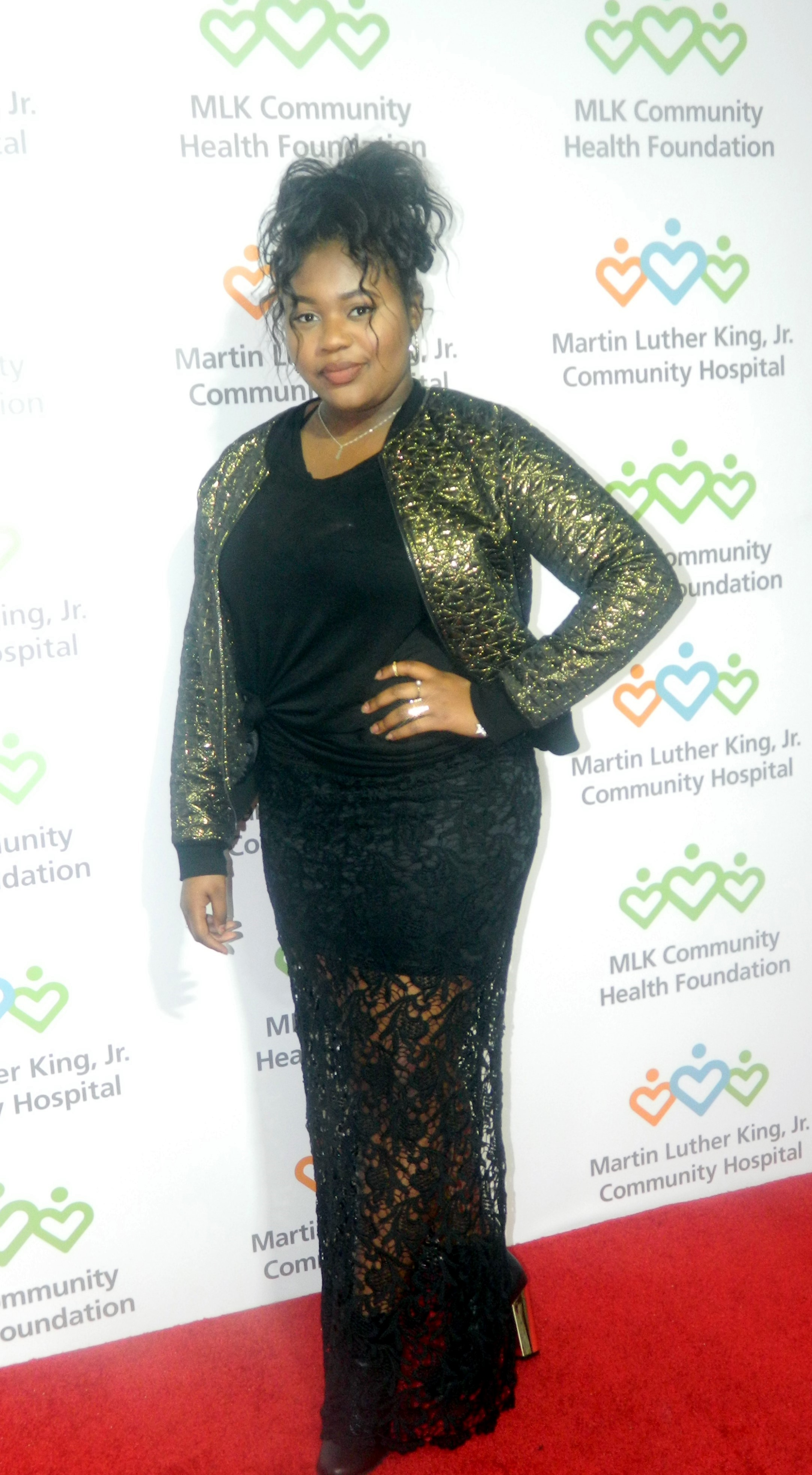 MLK Reopening Luncheon 2016